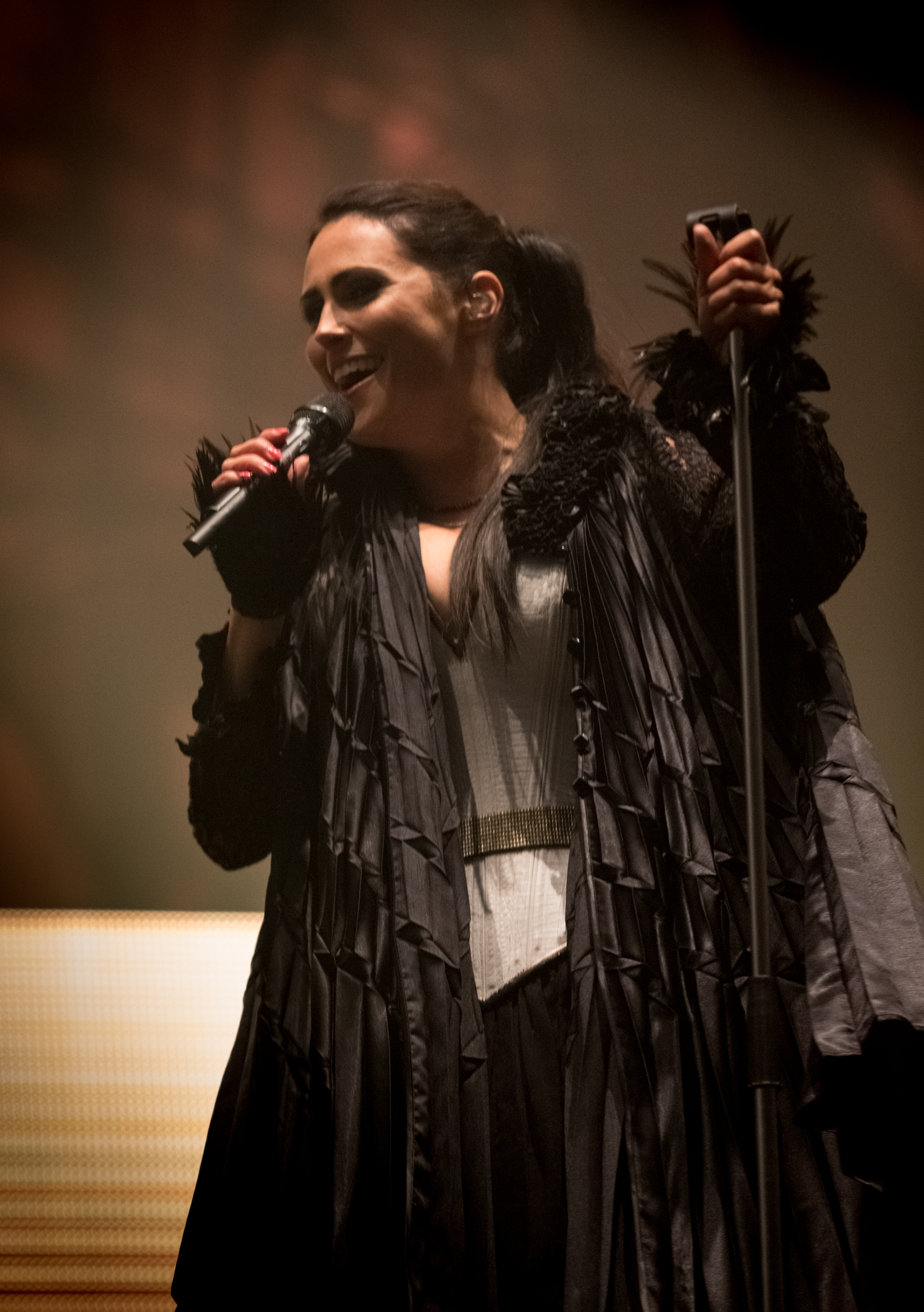 Within Temptation - Wacken Open Air 2015